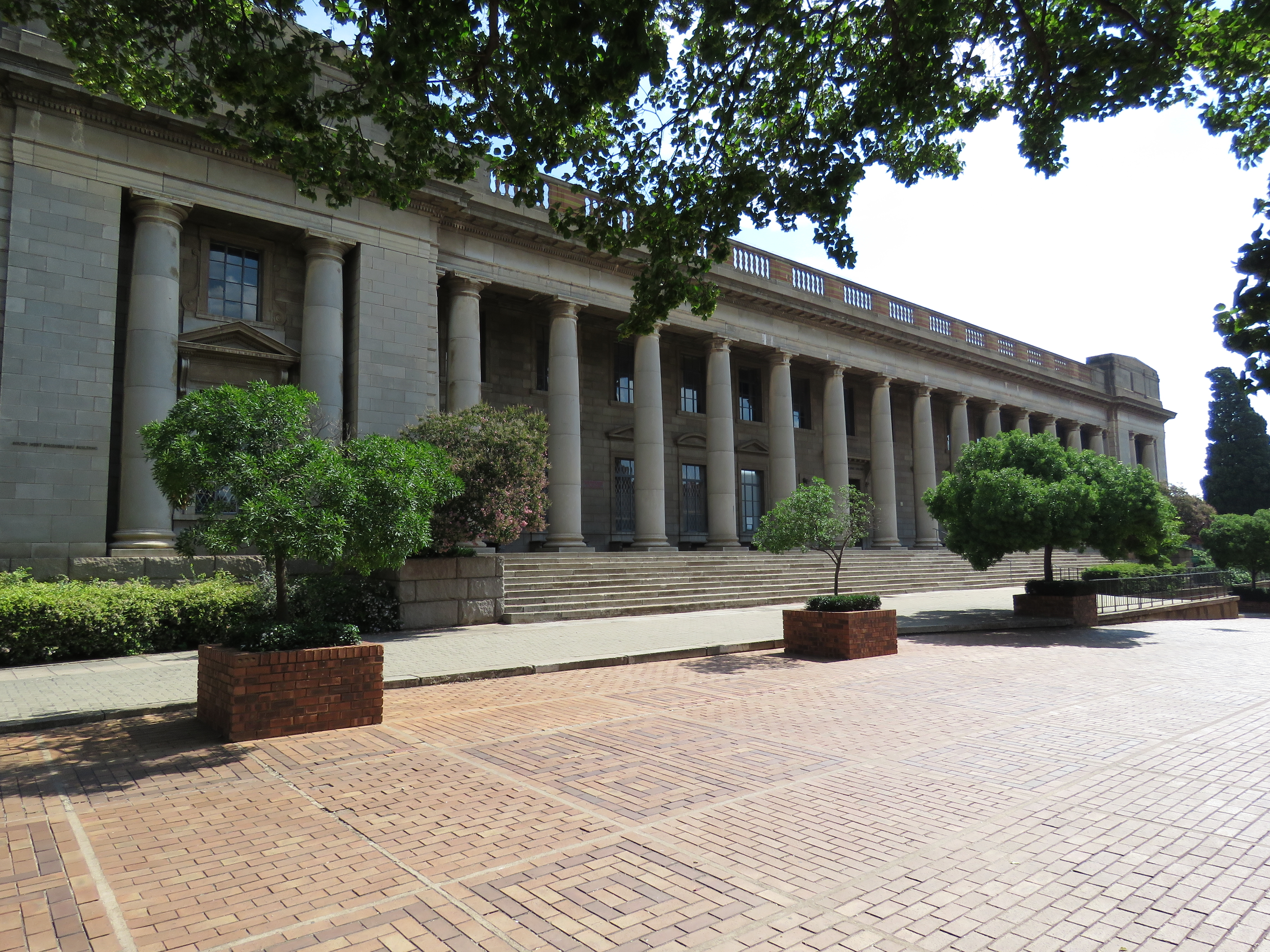 SW Engineering building of the University of the Witwatersrand in Summer 2016.